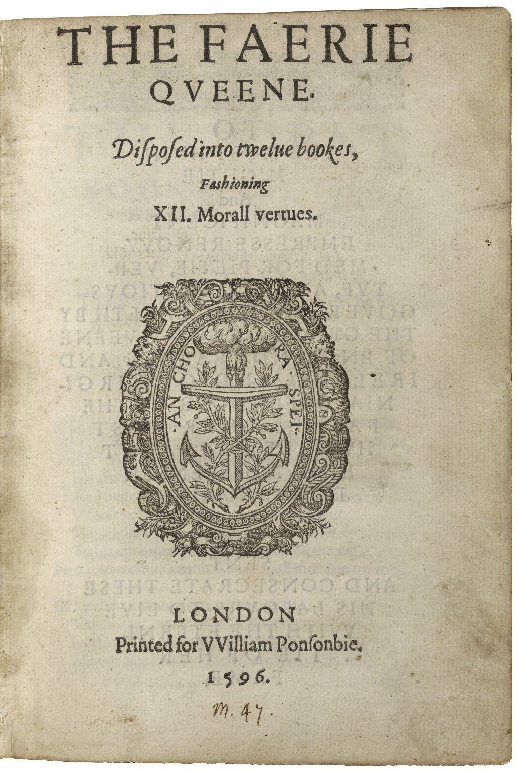 The title page from Ponsonby's 1596 printing of Spenser's The Faerie Queene